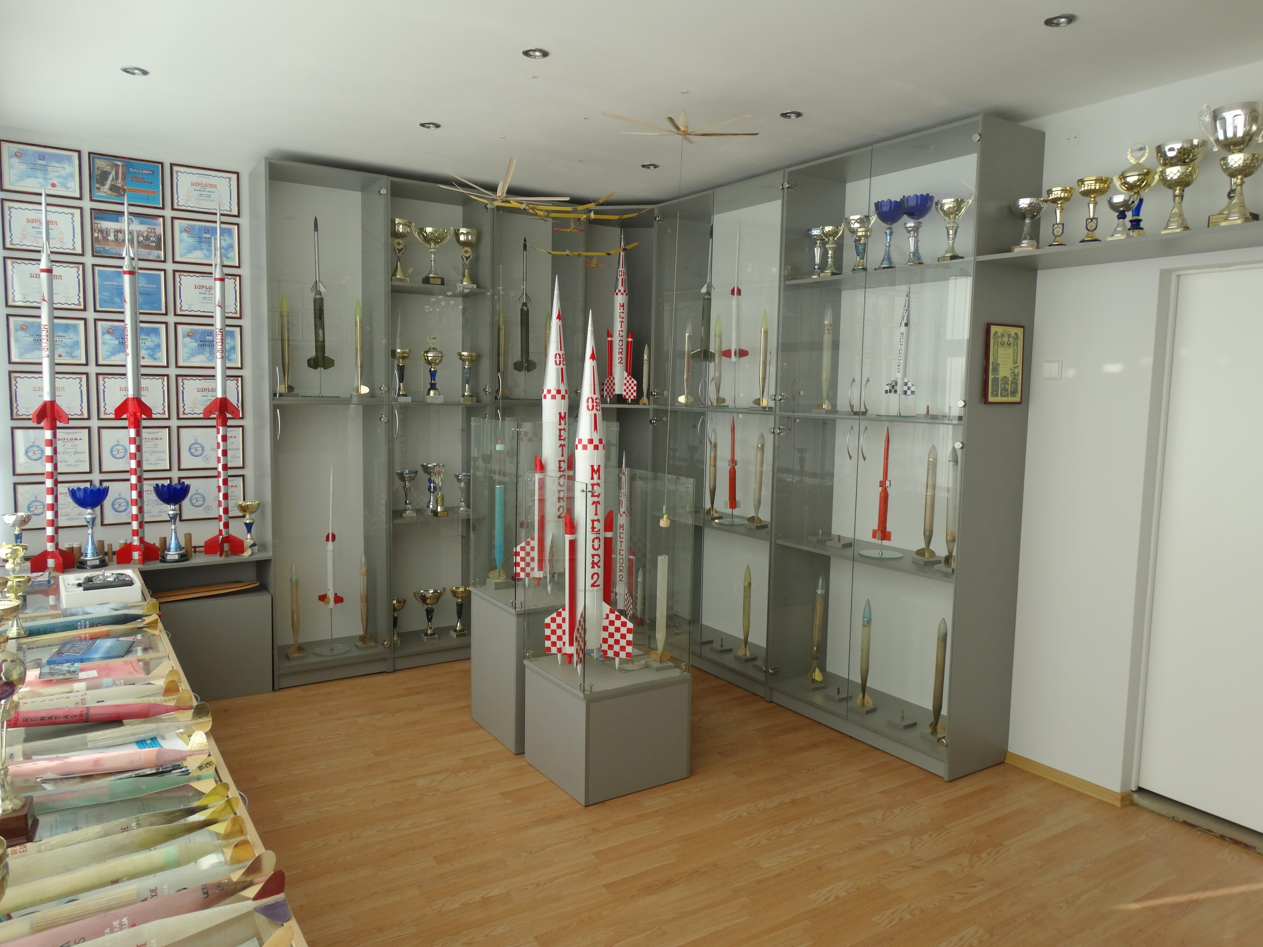 Space rocket modeling museum of Viktoras Karmonas, Radviliškis, Lithuania